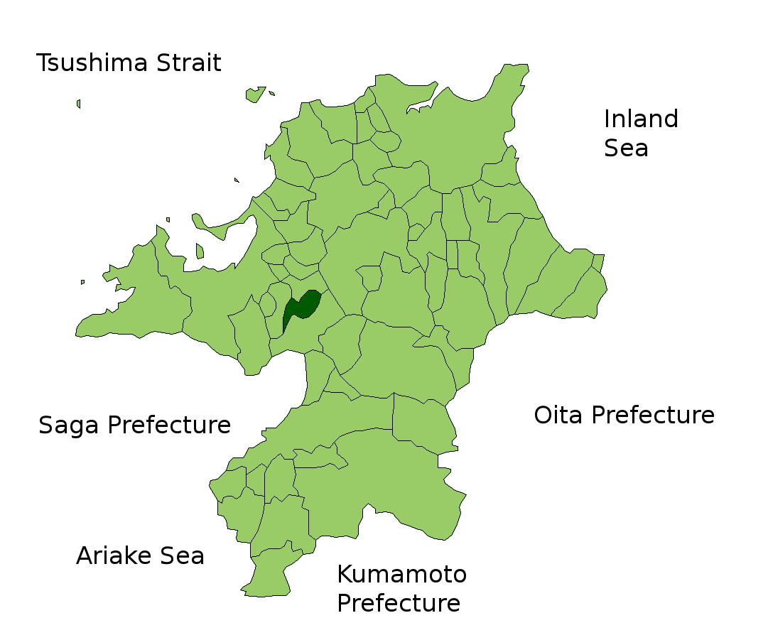 Location Map of Dazaifu in Fukuoka Prefecture, Japan